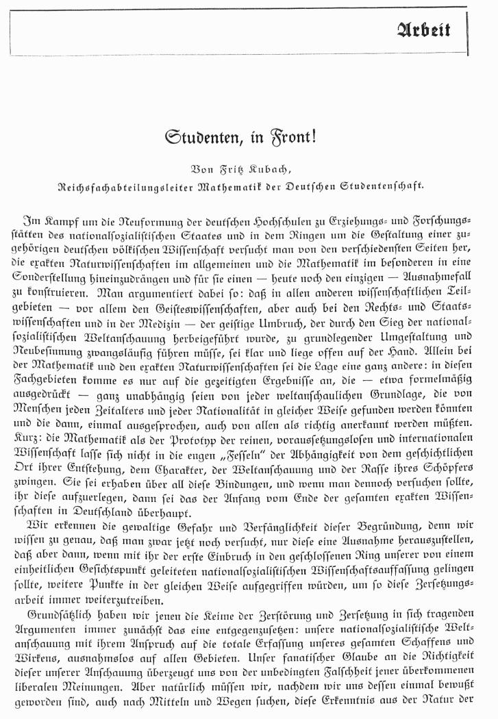 Page 5 of the journal Deutsche Mathematik, Vol.1 (1936), Nr.1, article Studenten, in Front by Fritz Kubach (de, missing since Jan.1945, declared dead since end of WWII)